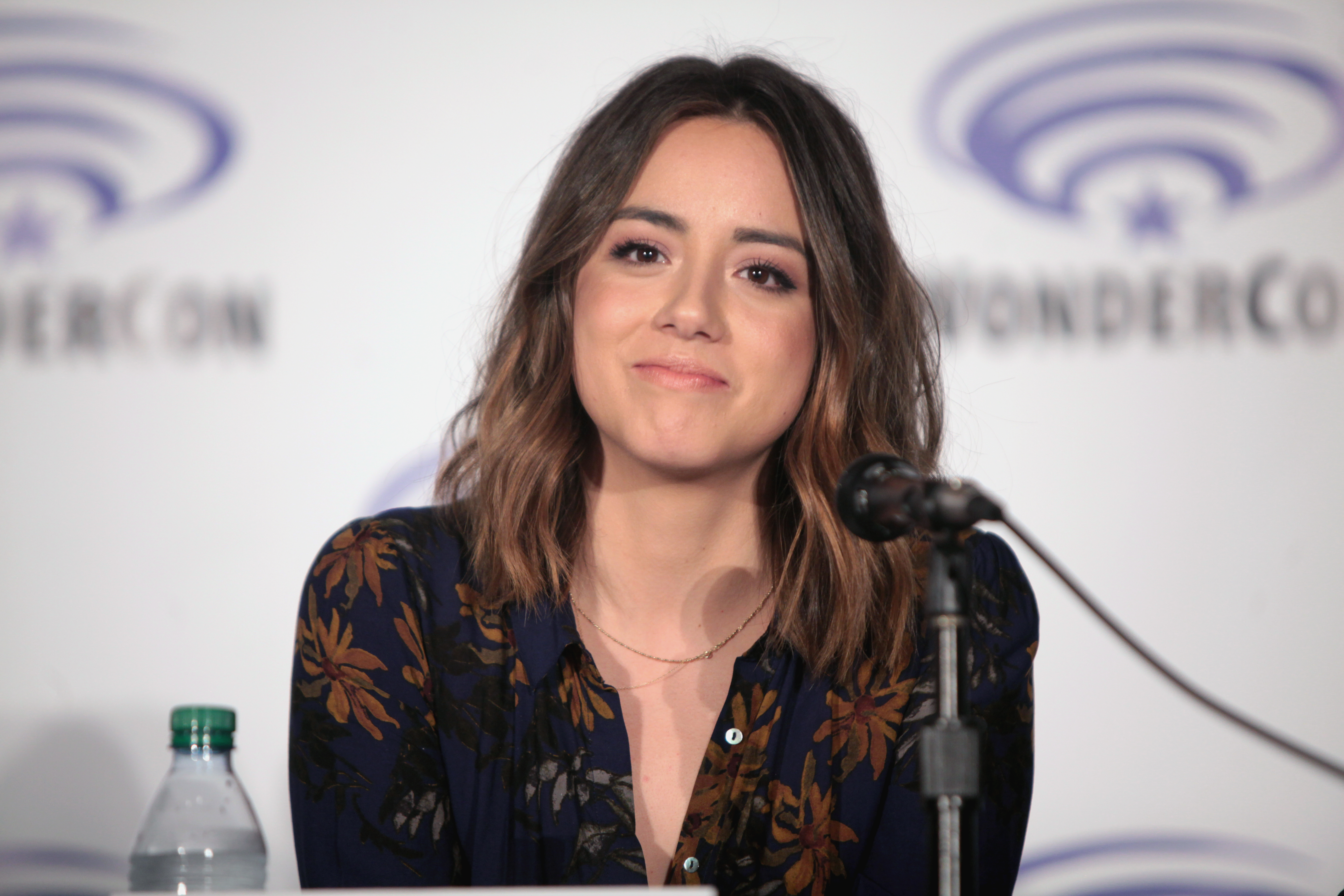 Chloe Bennet WonderCon 2016 Marvel's Agents of Shield